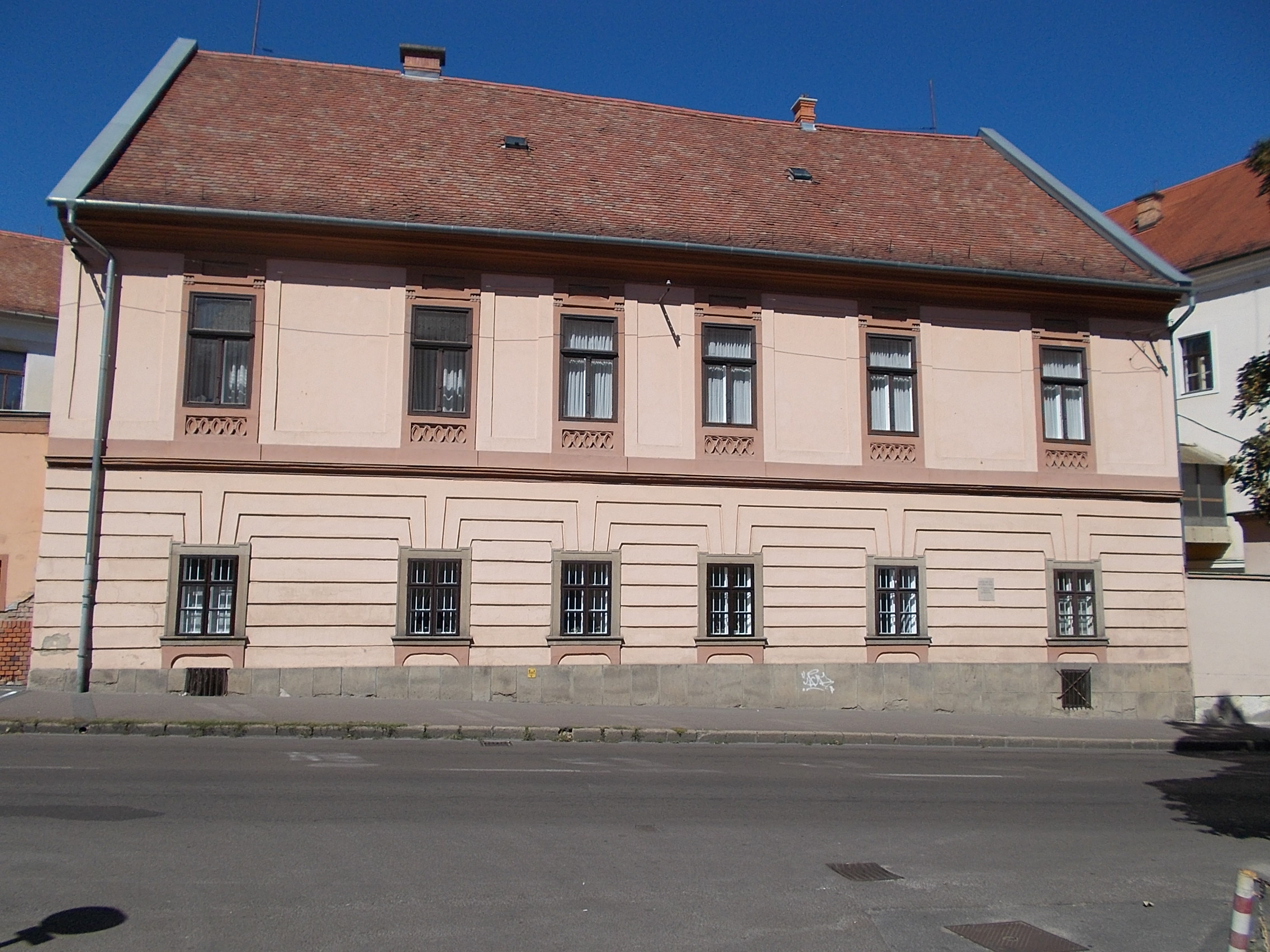 The Canon house. Built in end of the 18th C. - 2 Csiky St., Eger, Heves County, Hungary.